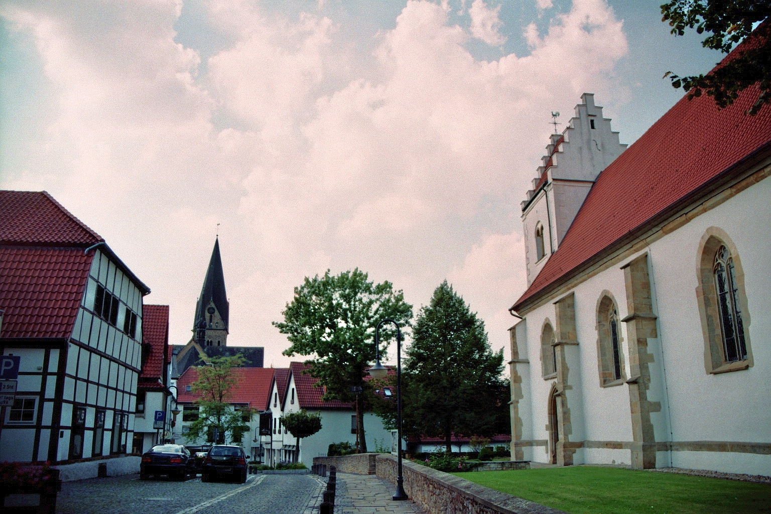 Westerkappelner Straße (Westerkappeln Street) in Mettingen, Kreis Steinfurt, North Rhine-Westphalia, Germany. The picture shows three cultural heritage monuments: the timber framed house “Kapellchen” (left), the Saint Agatha Church (center) and the Protestant Church (right).